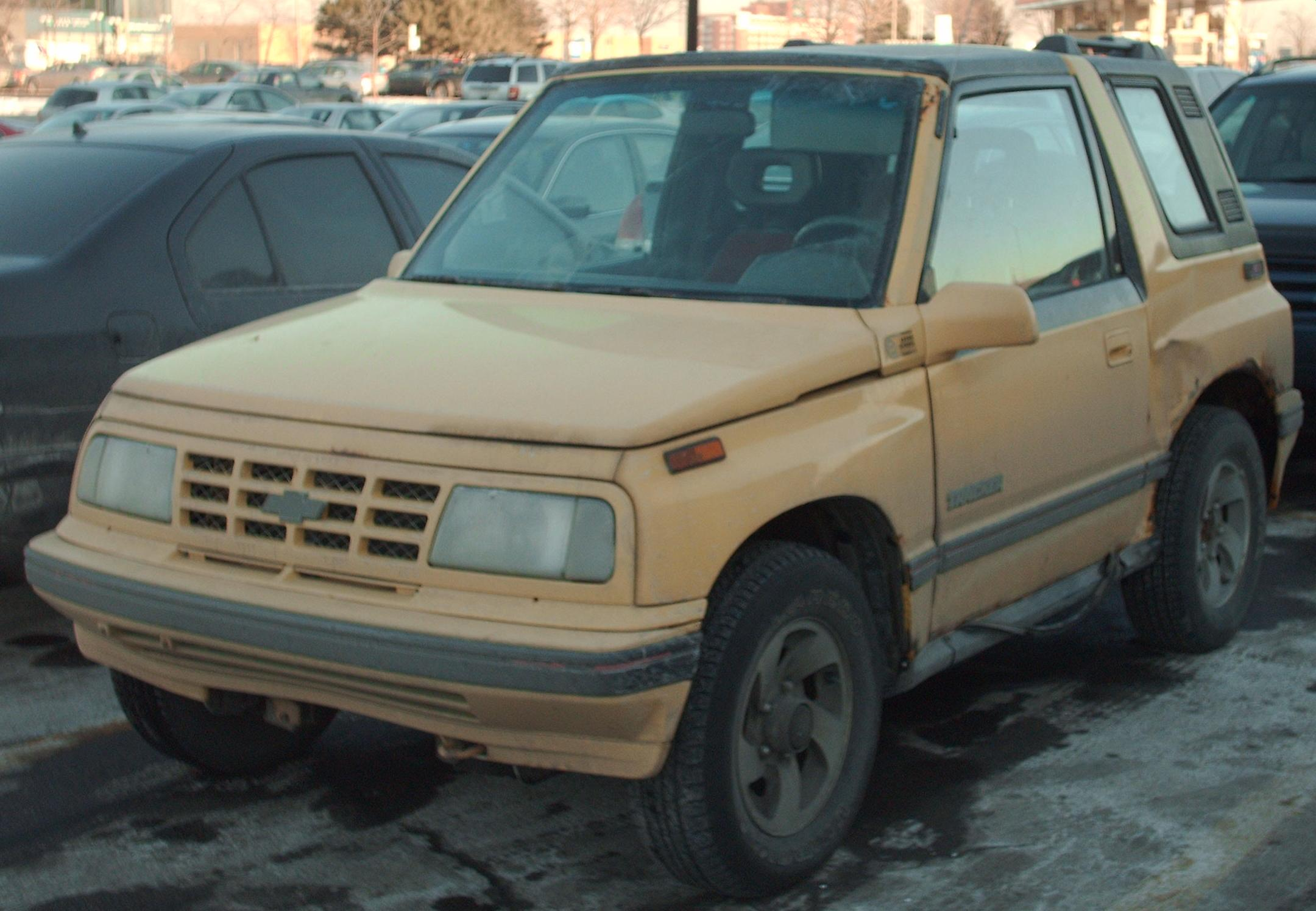 1989-1991 Chevrolet Tracker photographed in Montreal, Quebec, Canada.